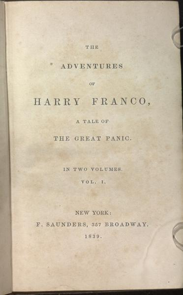 Title page for The Adventures of Harry Franco: A Tale of the Great Panic, by American author Charles Frederick Briggs.